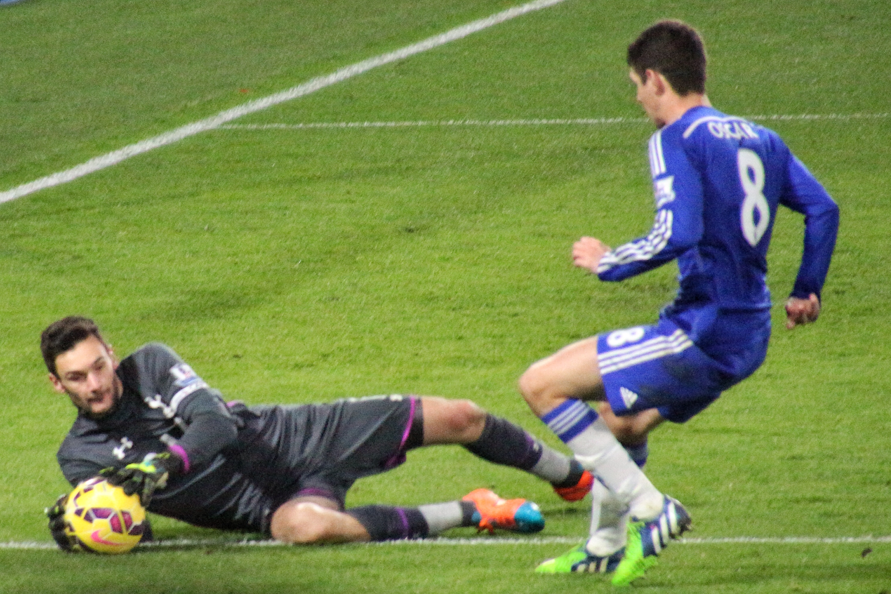 Chelsea 3 Spurs 0